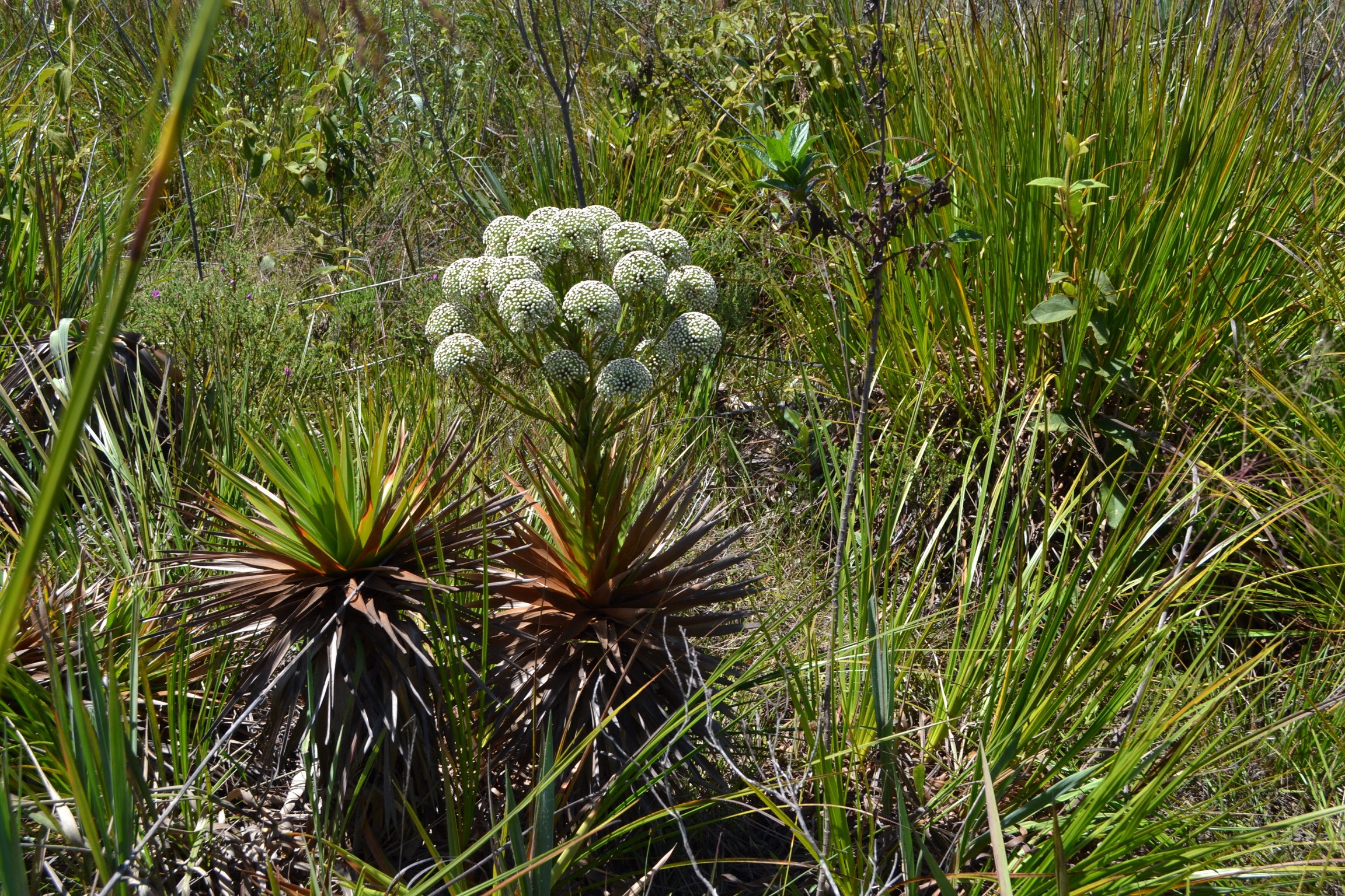 Photo taken of a species of Eriocaulaceae at Serra do Cipó in Minas Gerais